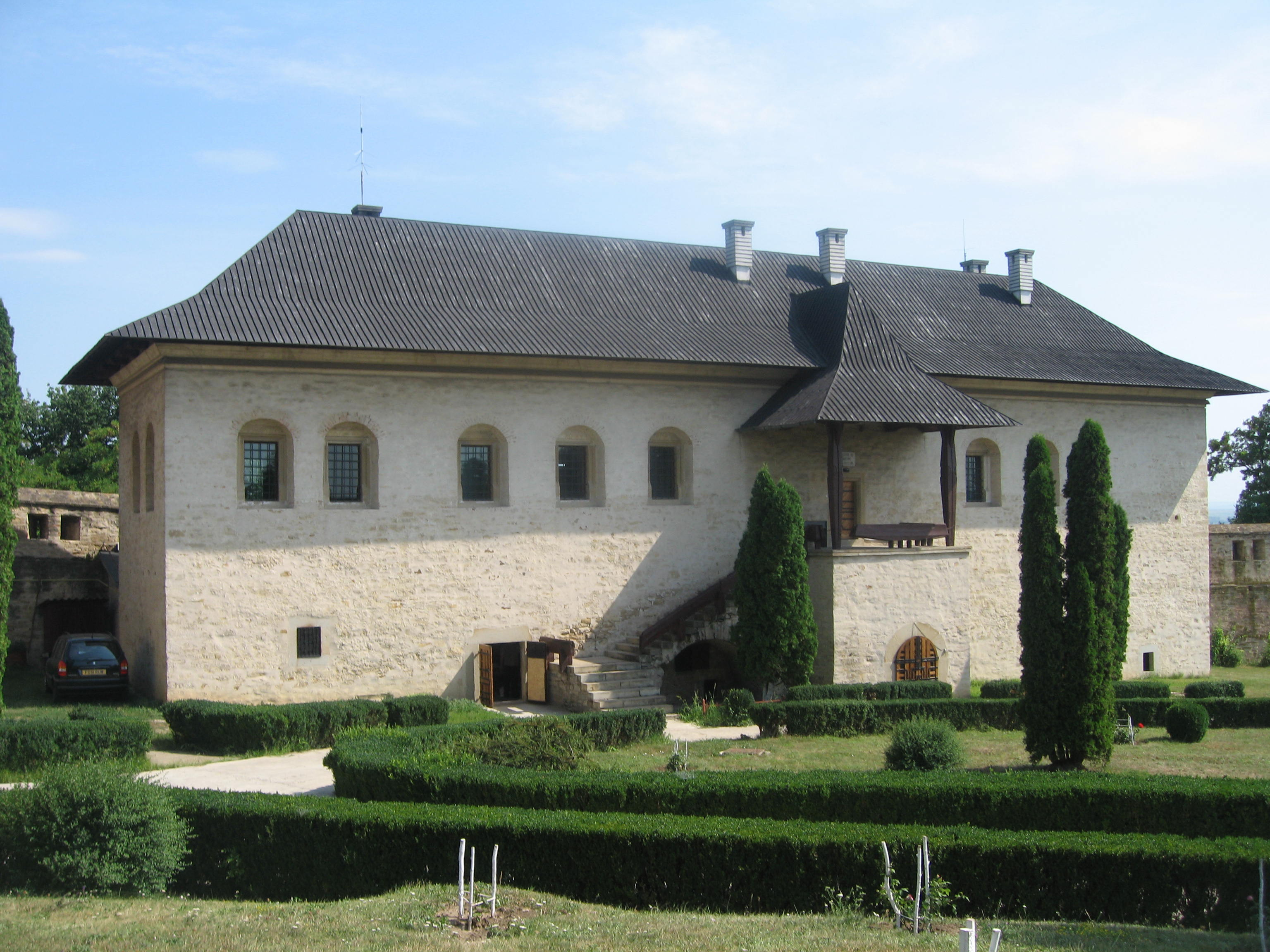 Mănăstirea Cetăţuia